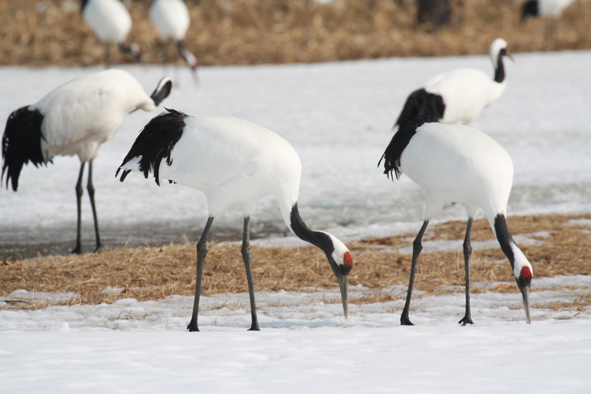 Several Red-crowned Cranes (also called the Japanese Crane or Manchurian Crane) in Hokkaido, Japan.